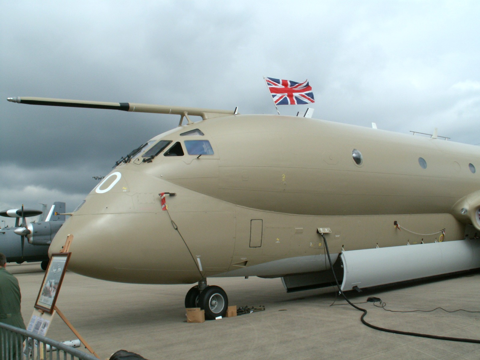 RAF Hawker Siddeley Nimrod XV230 at the 2005 Waddington Air Show